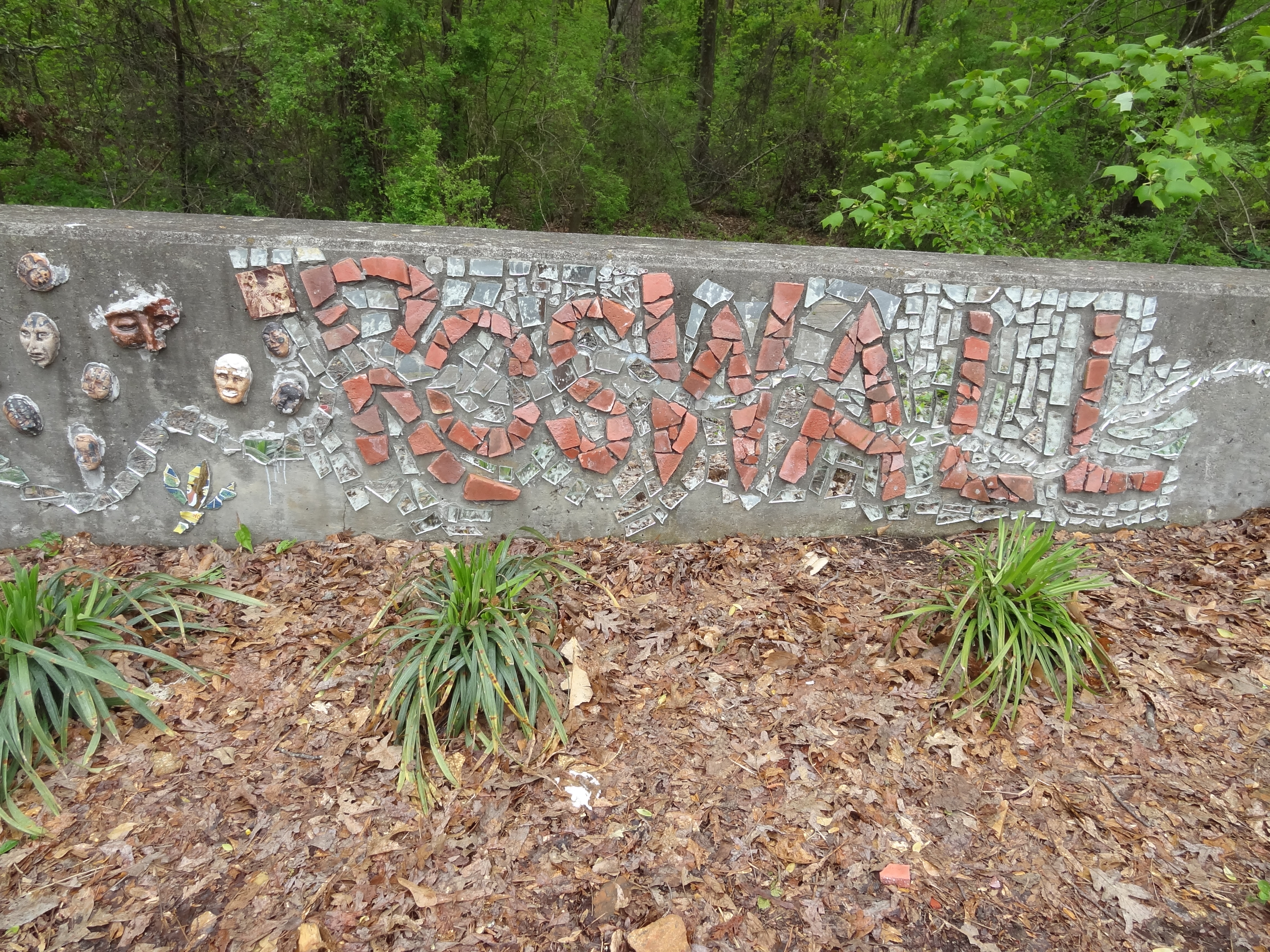 Roswall mosaic, Forrest St., Roswell, Georgia, USA